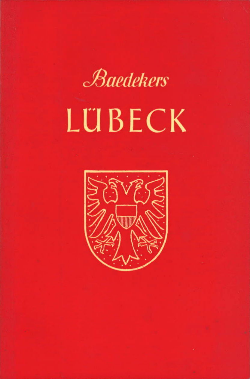 Front cover of 1963 Baedeker travel guide "Stadtführer Lübeck", Brochure